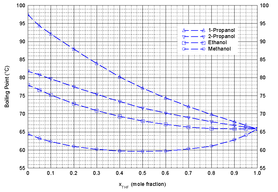 Binary phase diagrams of tetrahydrofurane (THF) with methanol, ethanol, 1-propanol and 2-propanol (constructed from experimental data in Yoshio Yoshikawa, Akira Takagi, Masahiro Kato, J. Chem. Eng. Data 25 (1980) 344-346)